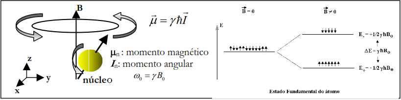 interação Zeeman no núcleo